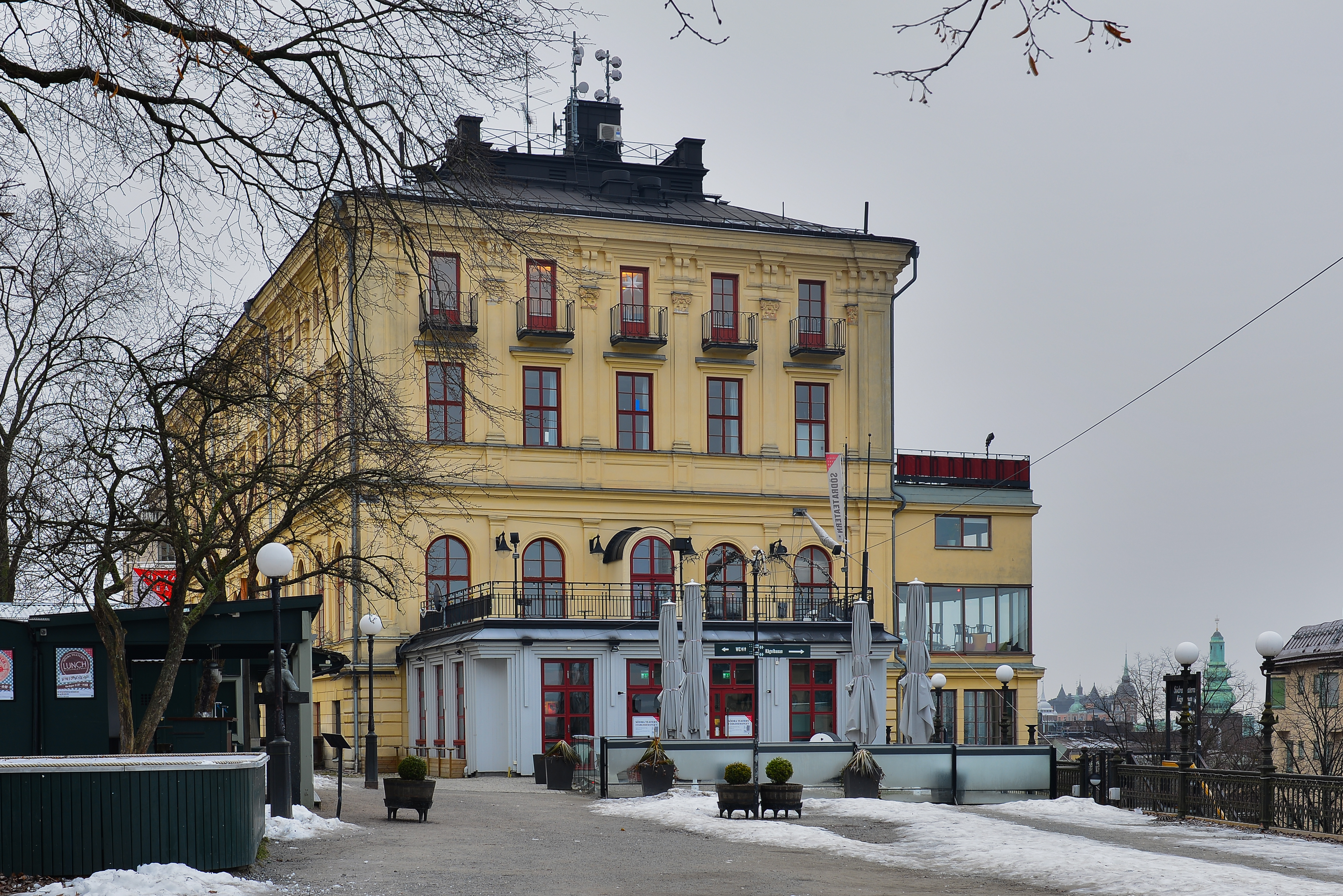 East facade of Södra Teatern (Southern Theatre), located in Södermalm, Stockholm. Established in 1859, it's Stockholm's oldest private theatre.